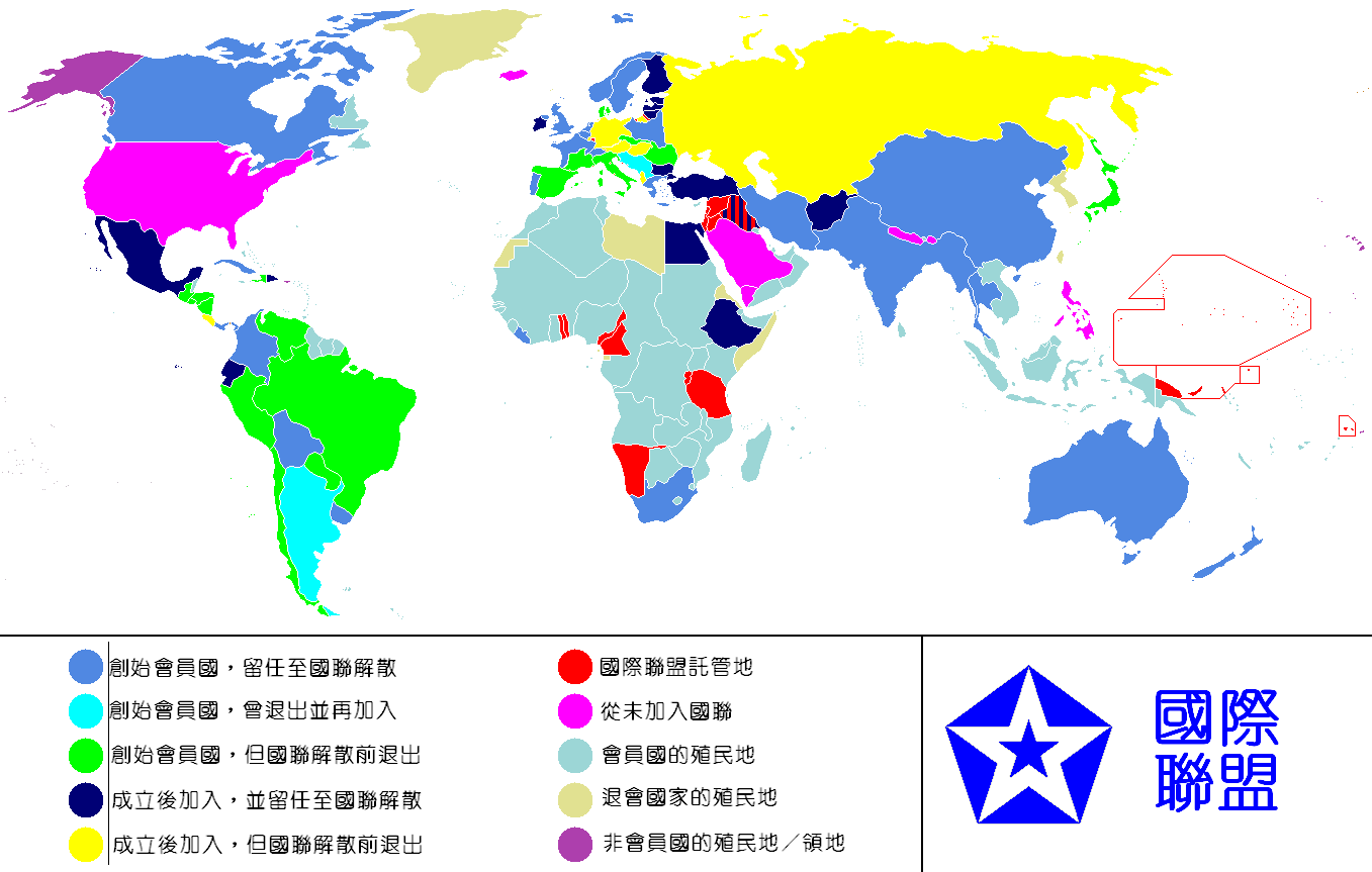 Anachronous map of the world between 1920 and 1945 which shows the The League of Nations and the world